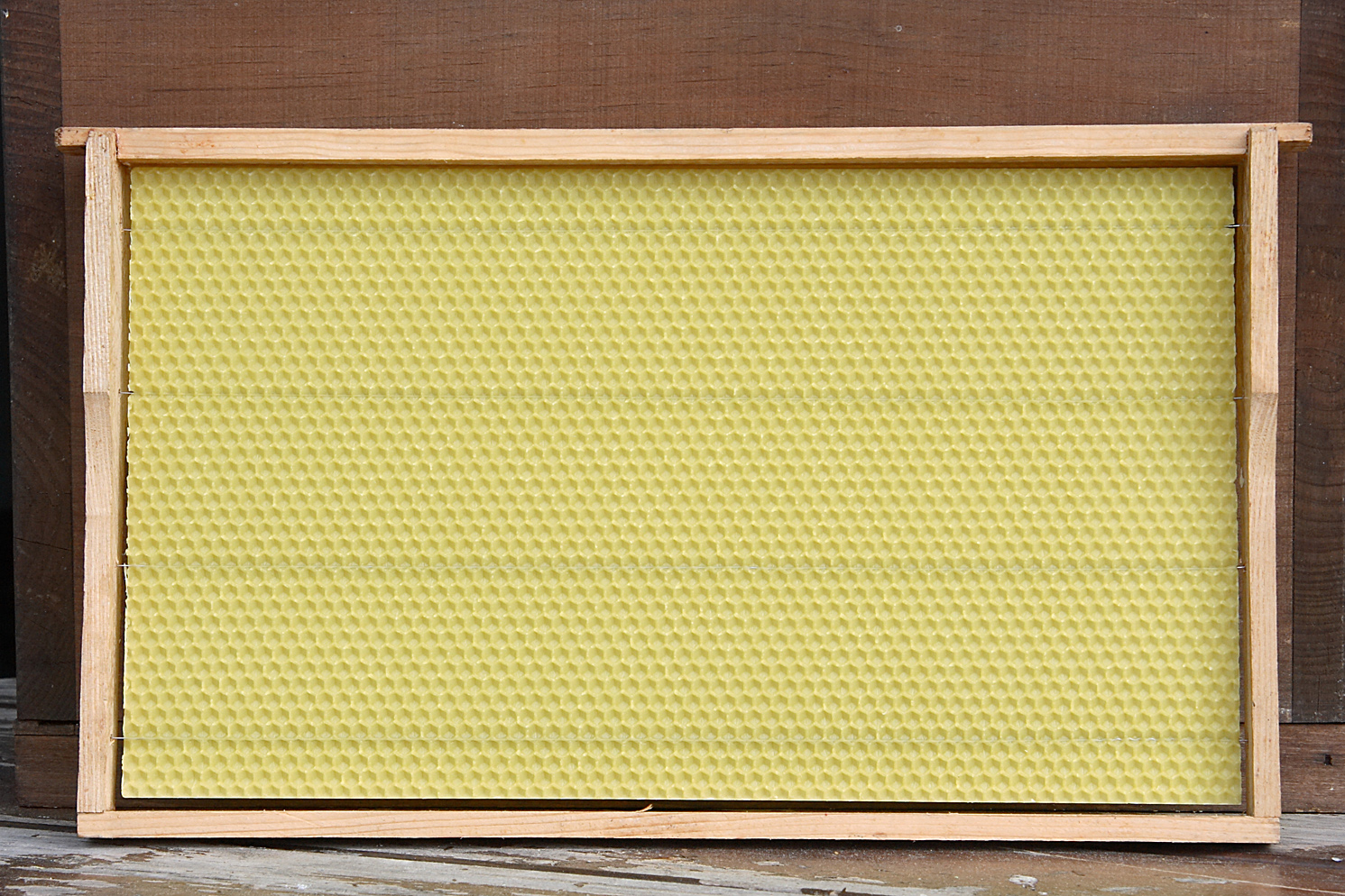 Beeswax foundation in a frame for a honeycomb.